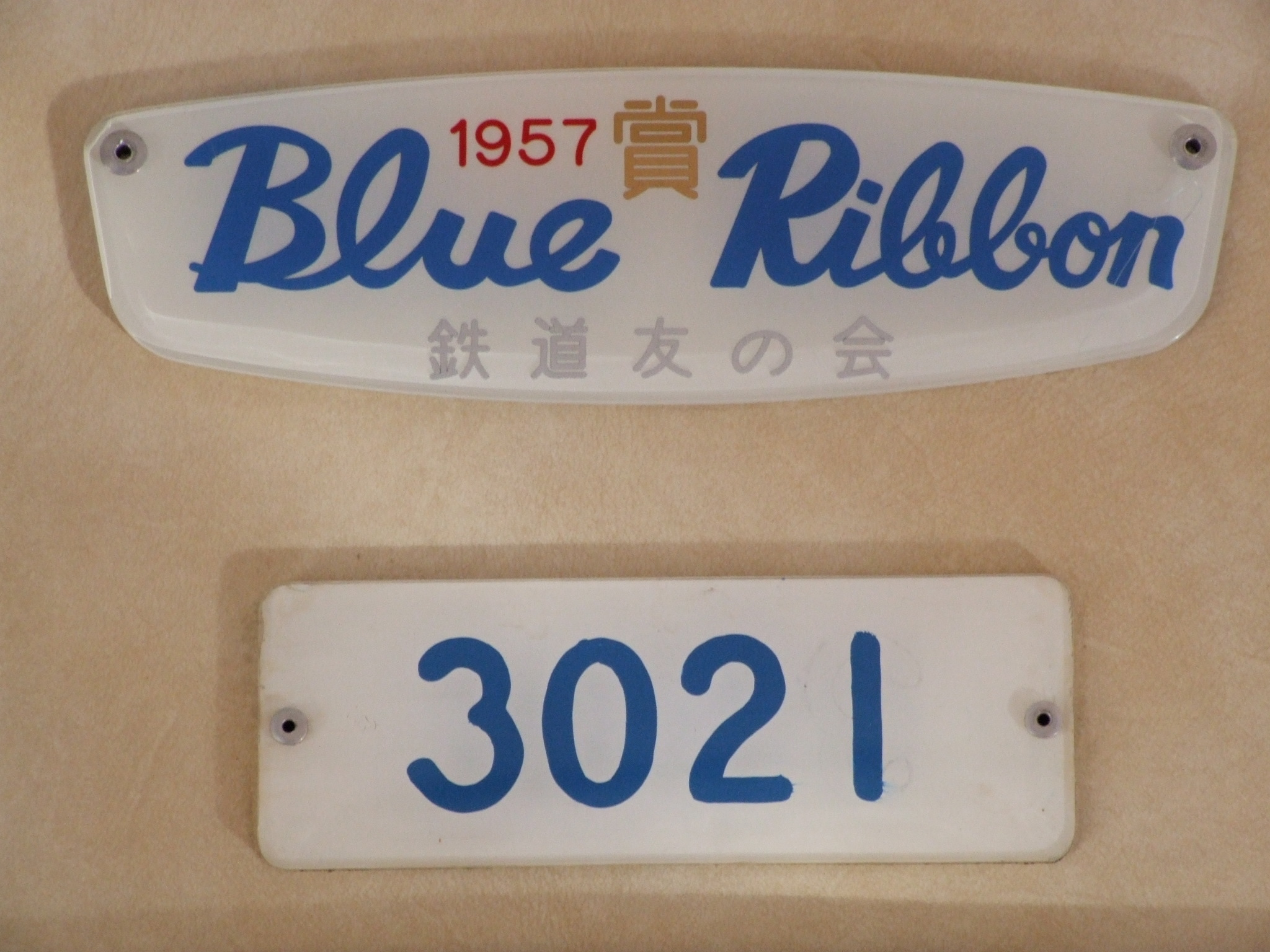 Japan Railfan Club Blue Ribbon Award plaque inside an Odakyu 3000 series "SE" Romancecar EMU